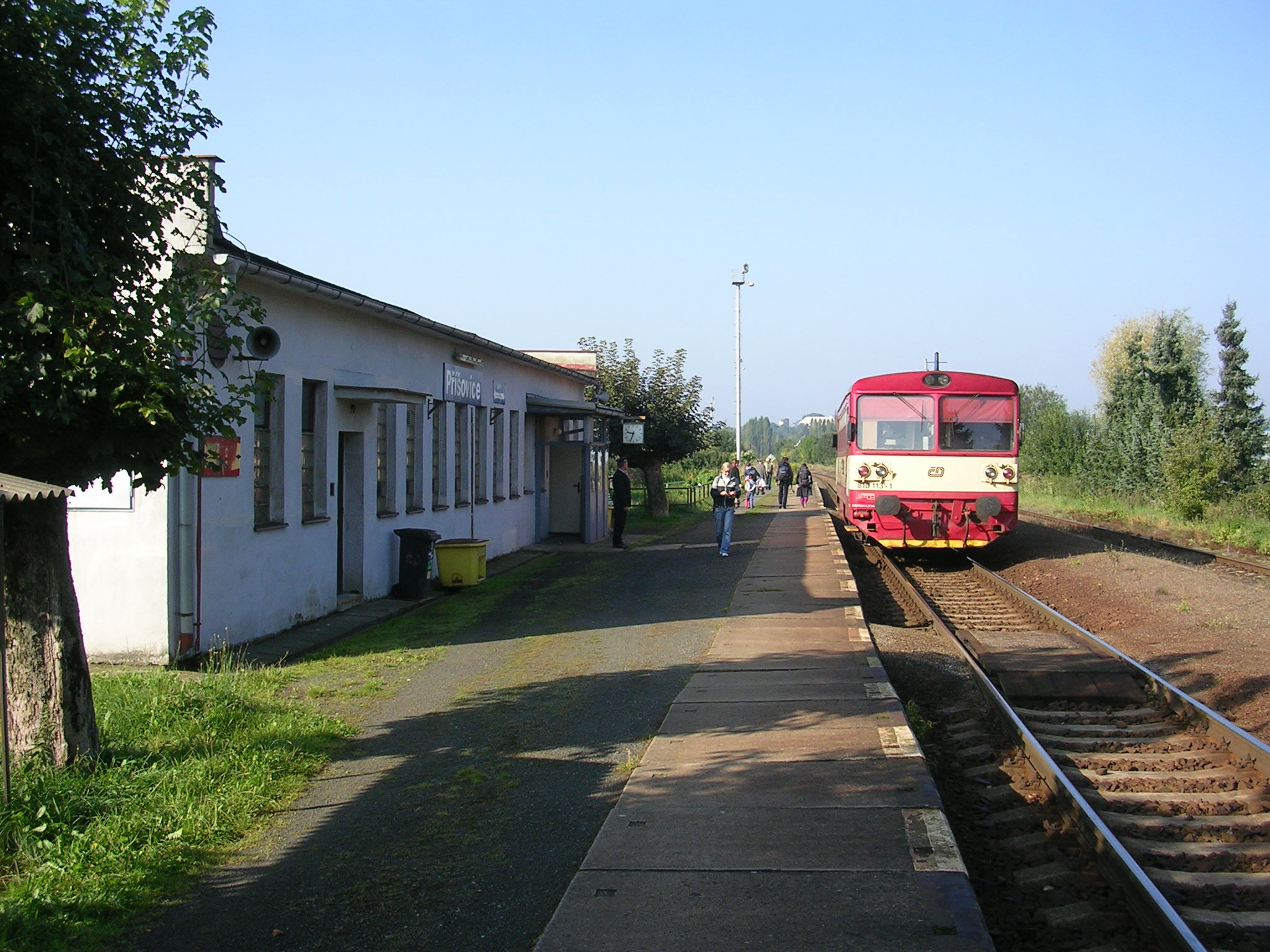 Příšovice, Liberec District, Liberec Region, the Czech Republic. A train stop.